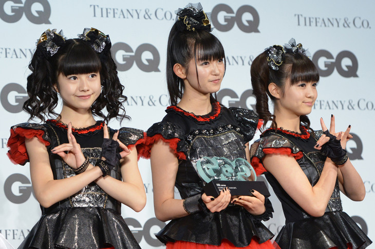 Babymetal (left to right; Yuimetal, Su-metal, Moametal) at "GQ Men of the Year" ceremony in Tokyo in 2015.